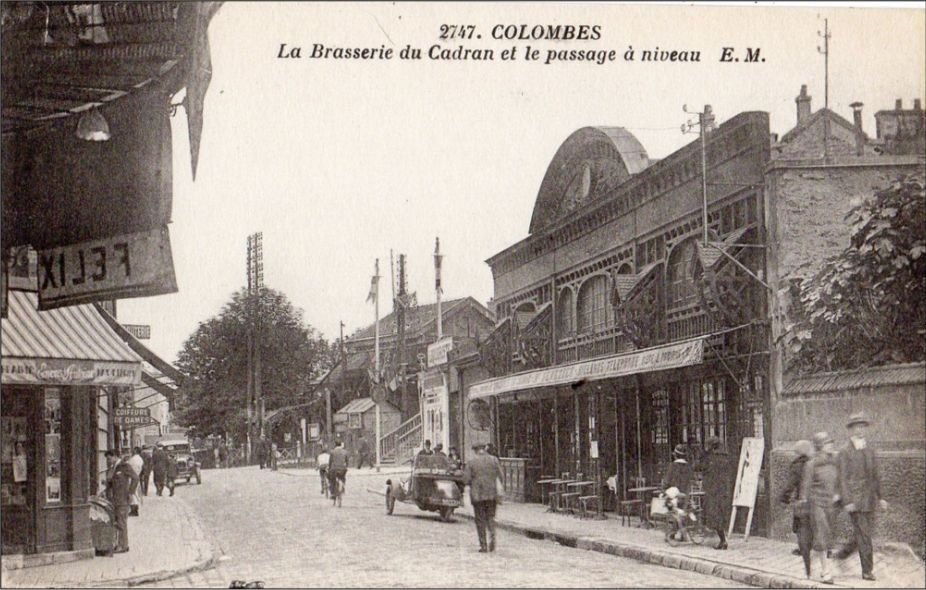 The brasserie "le Cadran" and the level crossing of the railway station of Colombes (Hauts-de-Seine, France) circa 1920.